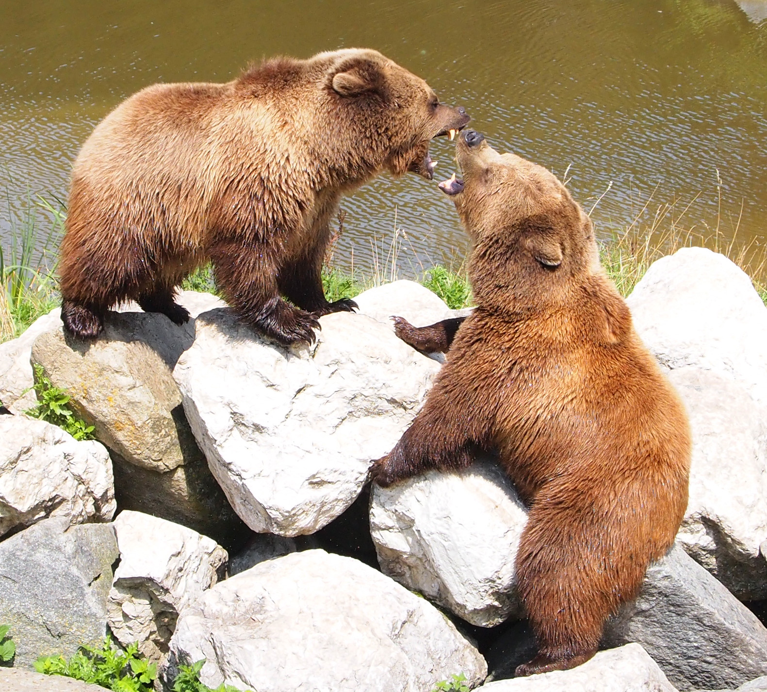 Bears in Wildpark Poing. This photograph was taken with an Olympus E-PL1